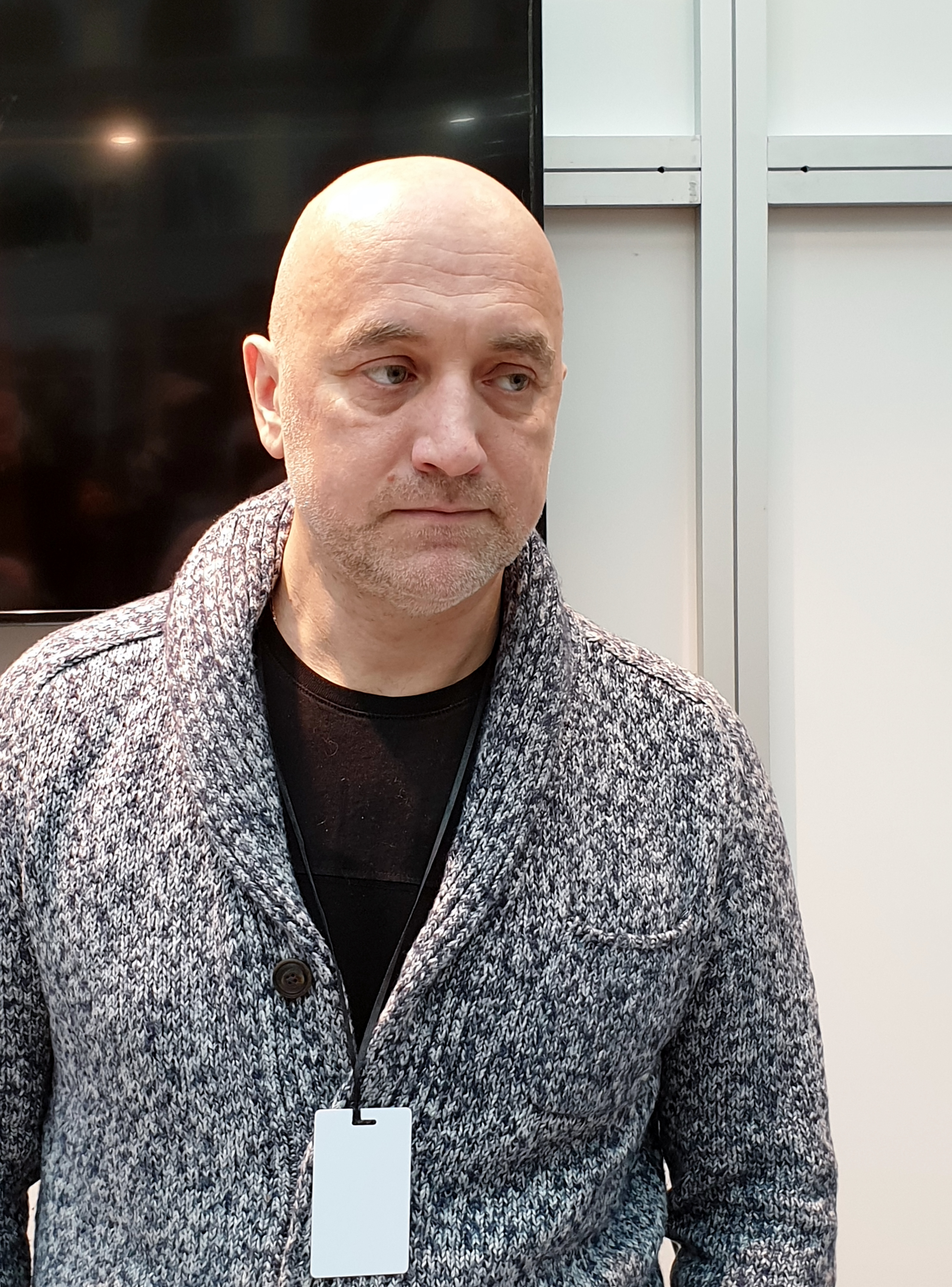 Russian writer Zakhar Prilepin at the 21 Moscow International Fair Non/fiction 2019